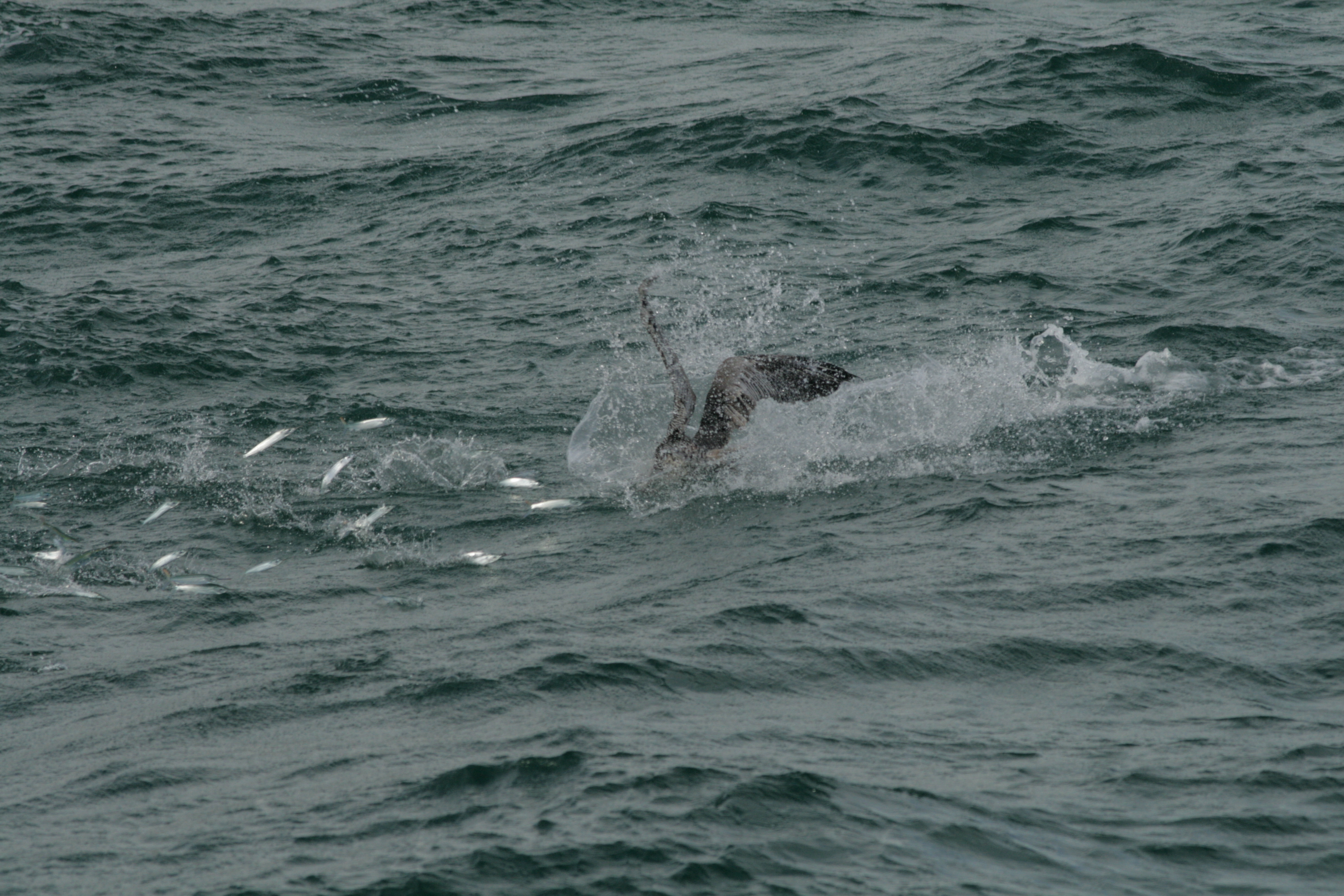 Brown Pelican hitting water and jumping fish.